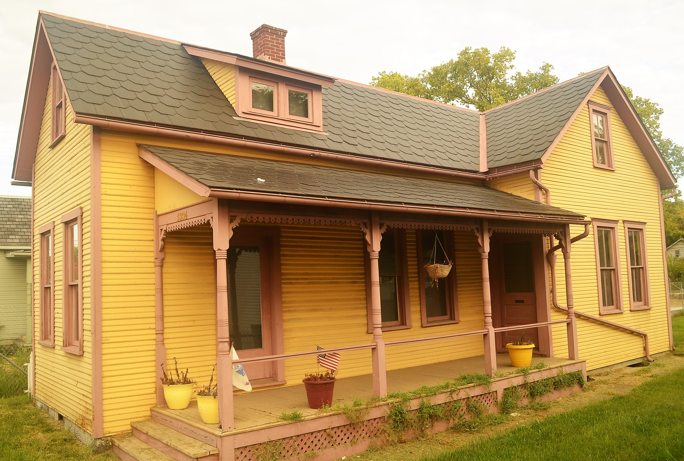 Eddie Rickenbacker house